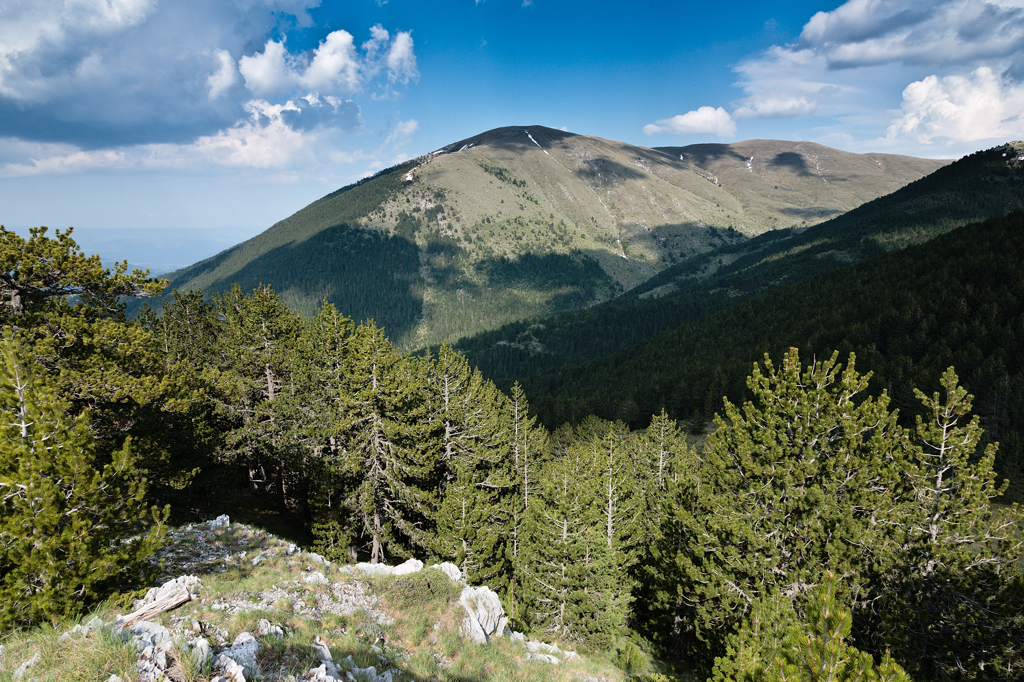 Tsari vrah, a peak in Alibotush mountain, Bulgaria. Trees are Pinus heldreichii.